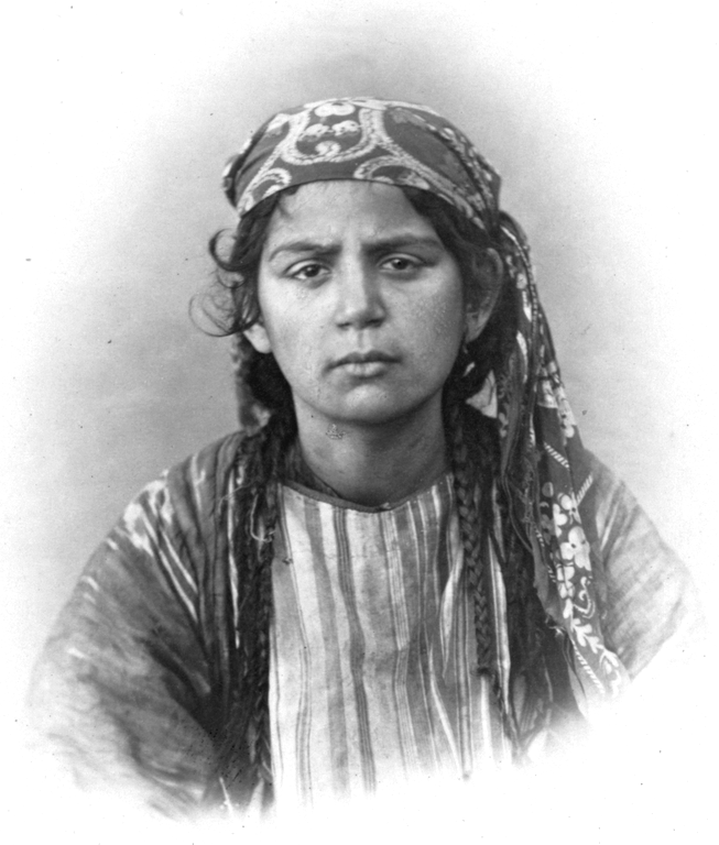 Illustration in: Turkestan Album, Ethnographic Part, 1872, part 2, volume 1, plate 32, no. 96